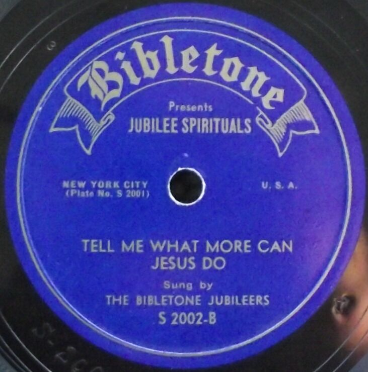 Picture of 78rpm Bibletone Records record label. Photograph of record from author's collection.